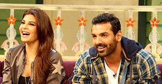 John Abraham Jacqueline Fernandez promote ‘Dishoom’ on sets of The Kapil Sharma Show